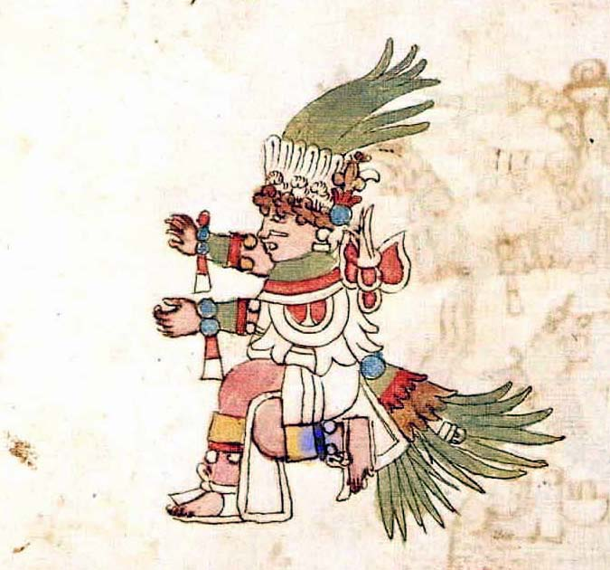 Metzli — an Aztec god.